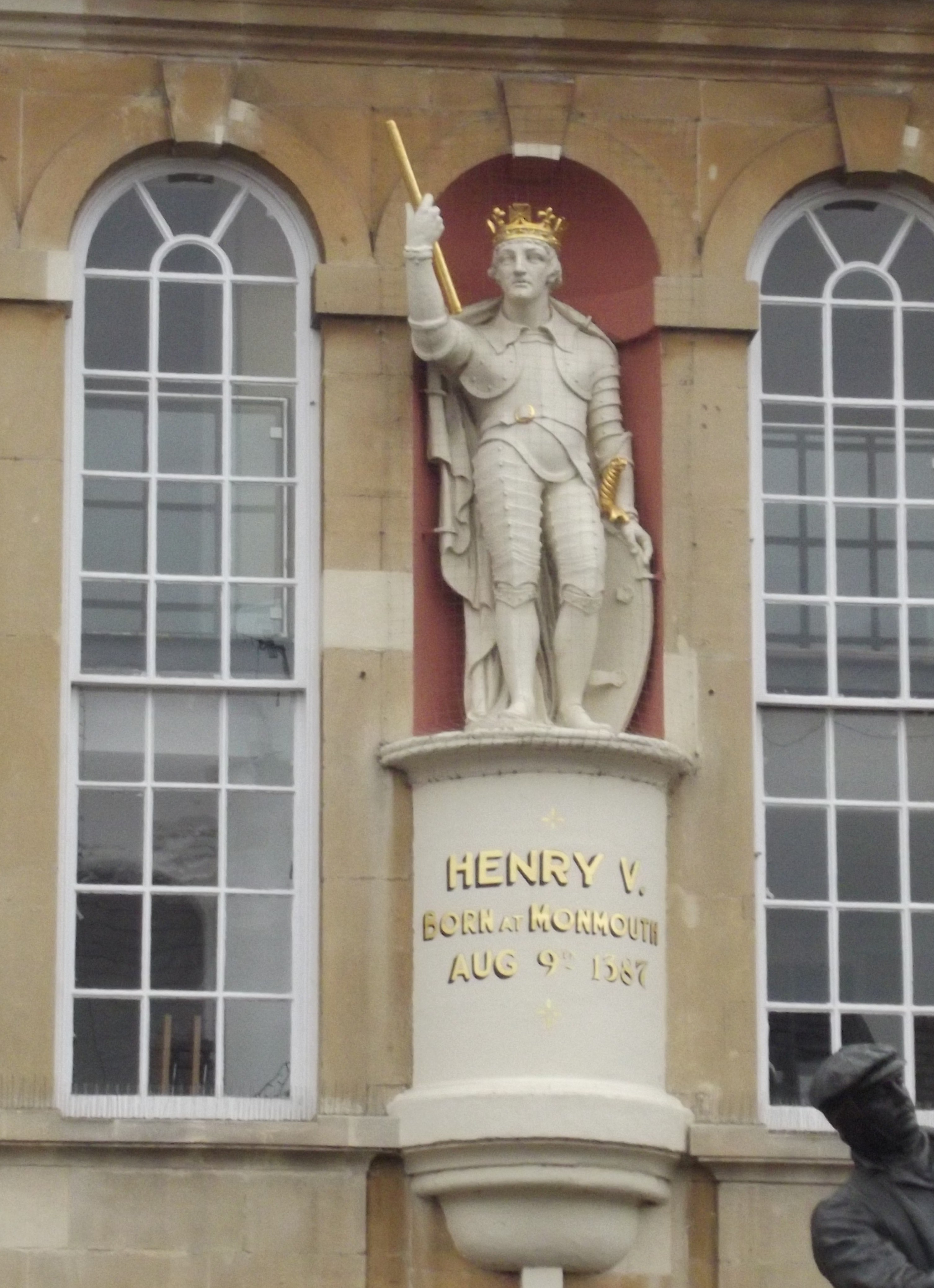 Agincourt Square in Monmouth. The Shire Hall. It has a statue of Henry V on it (he was born in Monmouth in 1387).